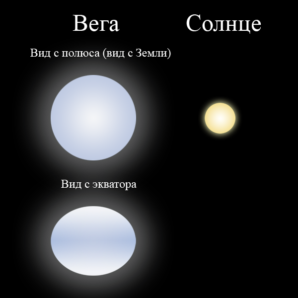 Comparison of Vega and Sun sizes and different views of Vega, description in Russian